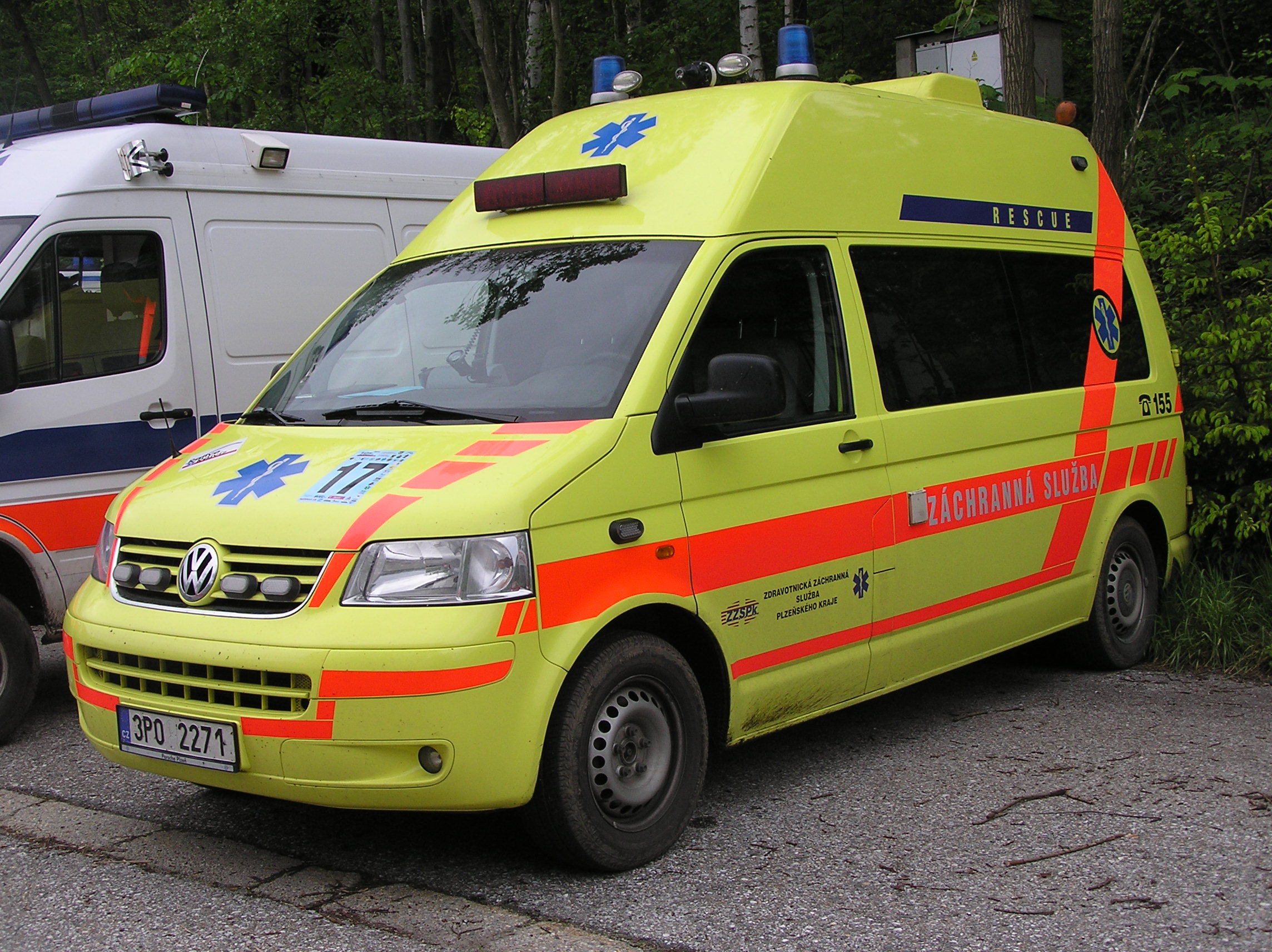 Volkswagen Transporter T5 ambulance of the Emergency Medical Services of Plzeň Region, Czech Republic. Photo was taken during the international competition Rallye Rejvíz 2010 in Kouty nad Desnou, Czech Republic